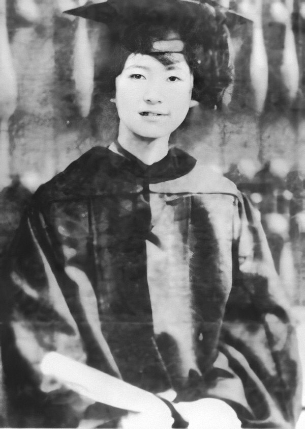 Lin Huiyin (1904-1955)